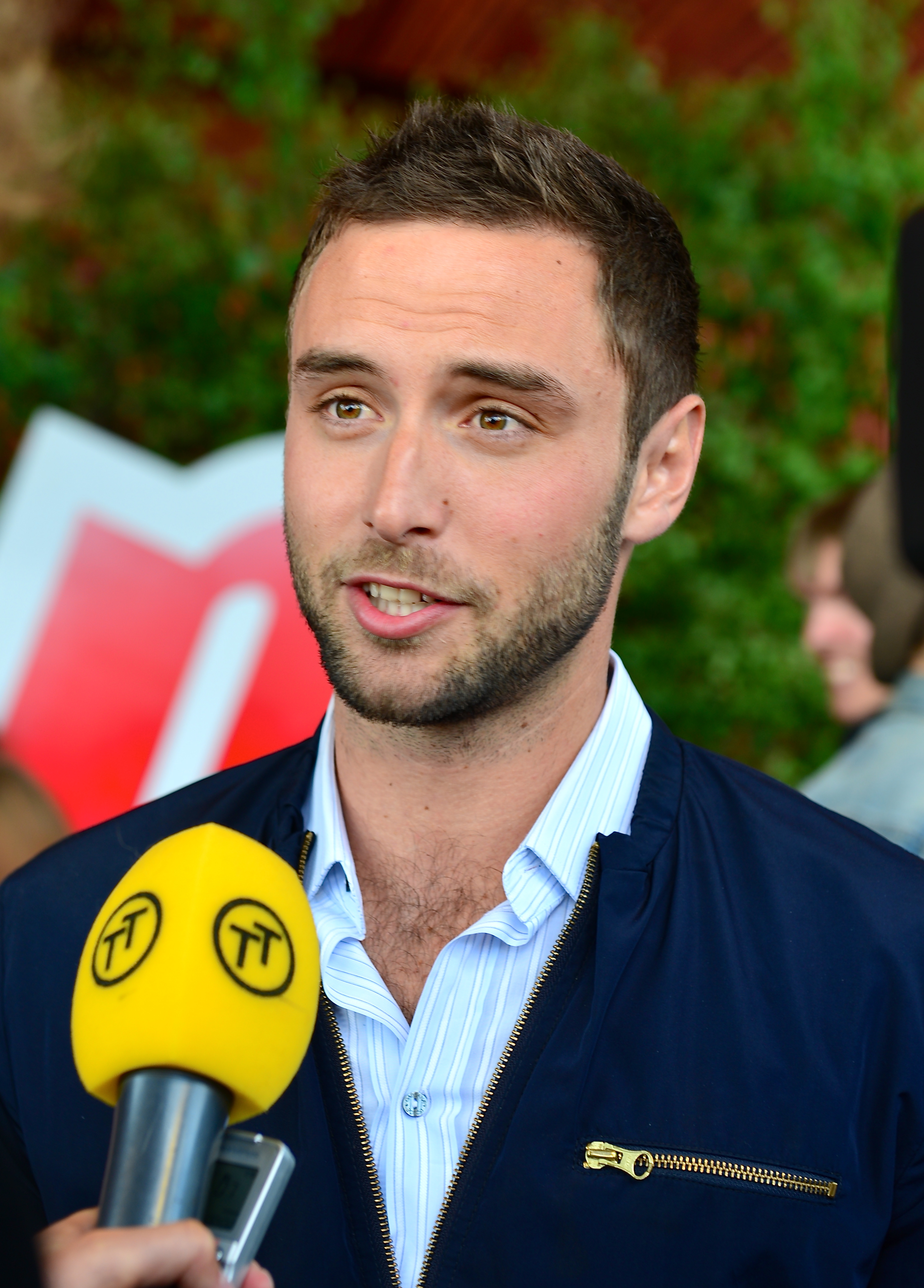 Måns Zelmerlöw during the presentation of this year's artists in "Allsång på Skansen" on June 11, 2013.